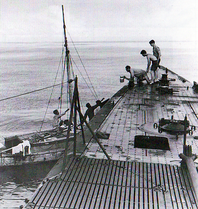 Crew members form Wahoo give food, water, and cigarettes to Malaysian refugees found adrift far from land. They were also supplied with maps to the nearest port.